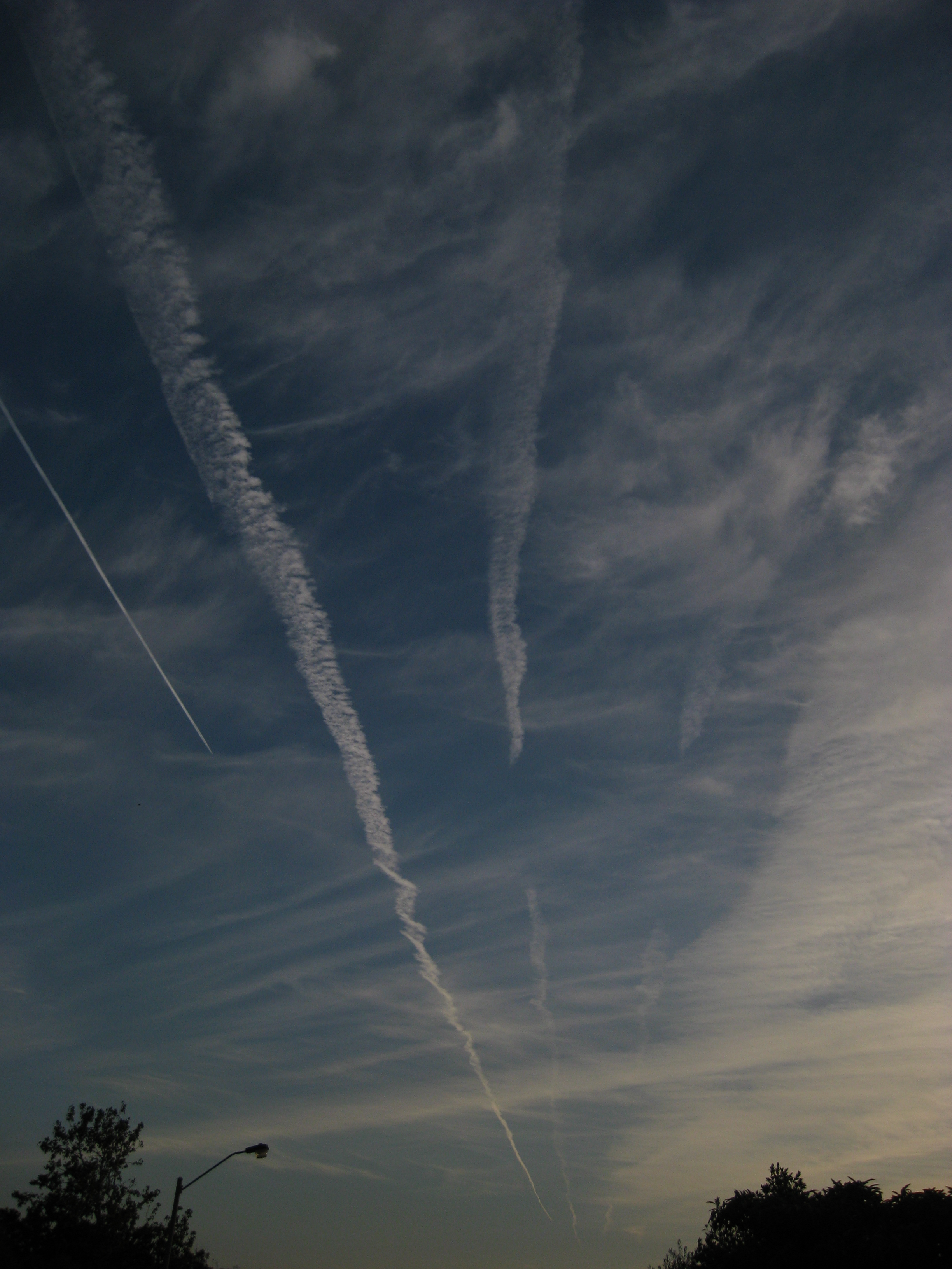 A series of contrails observed in Queanbeyan of aircraft travelling south west towards Melbourne Australia